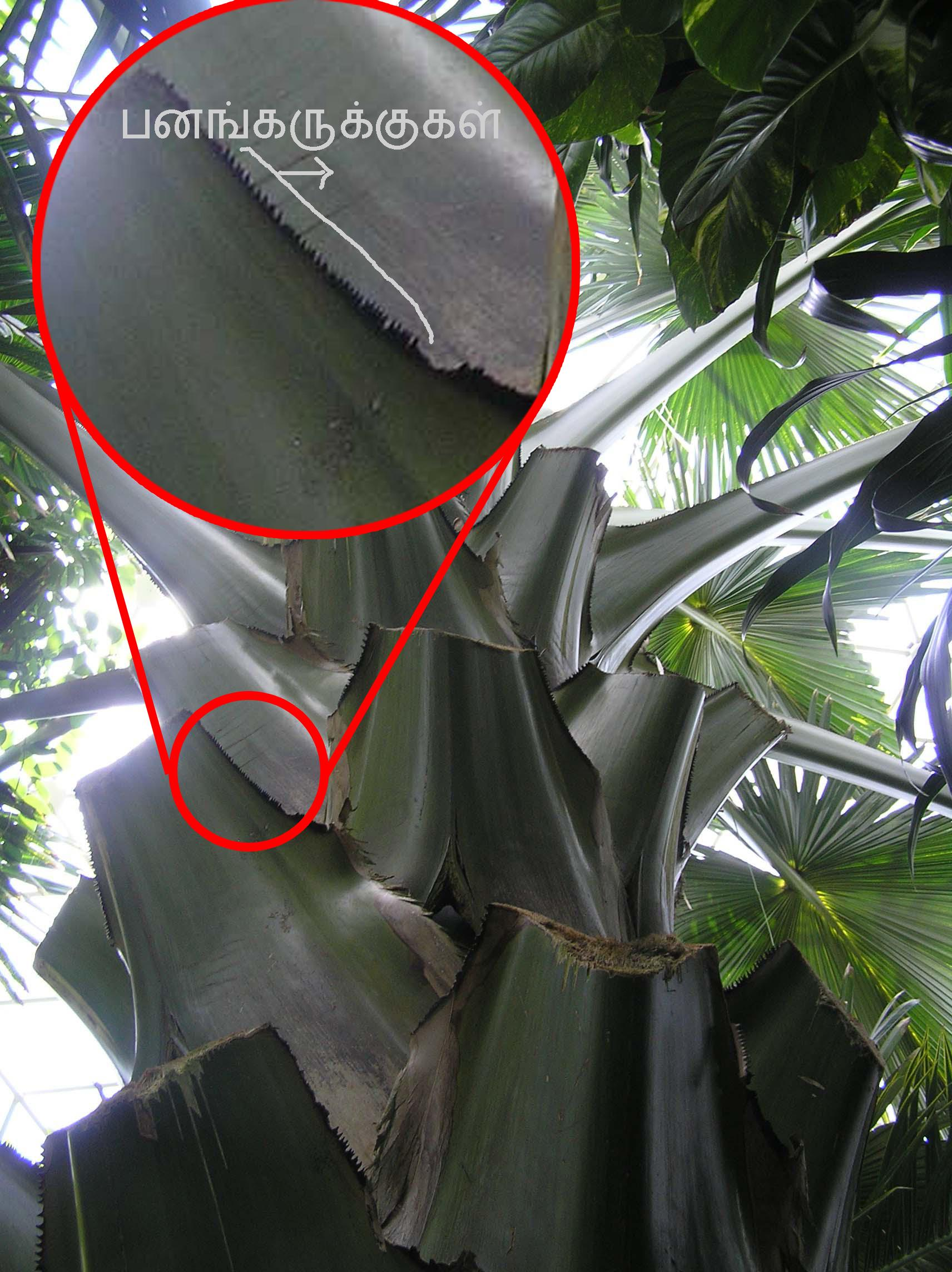 Photographer: Dasha Title: Palm branches Description: Botanical Gardens Taken on: 2004-08-01 13:21:20 Original source: - image description page